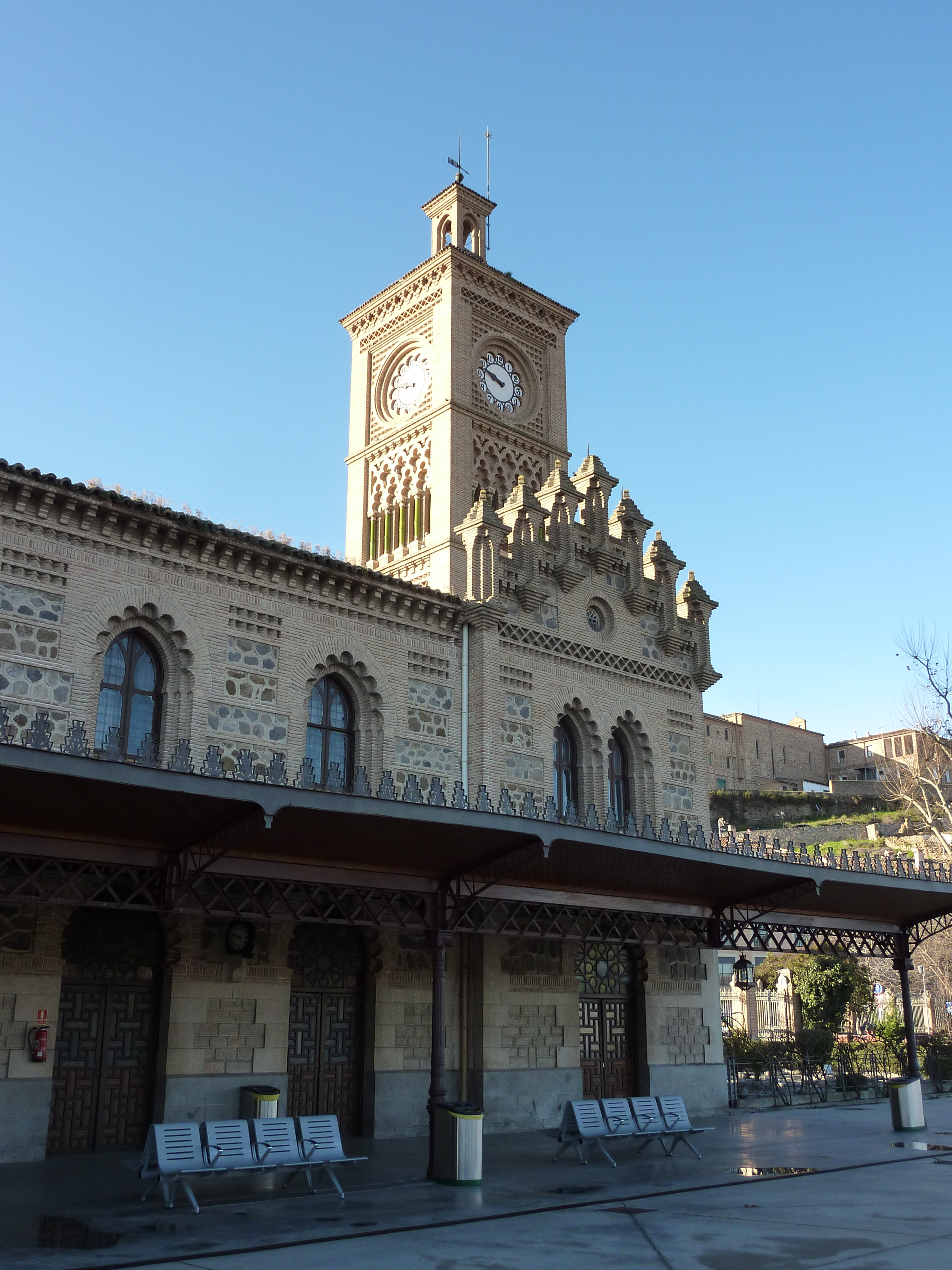 View of the railway station of Toledo, Spain